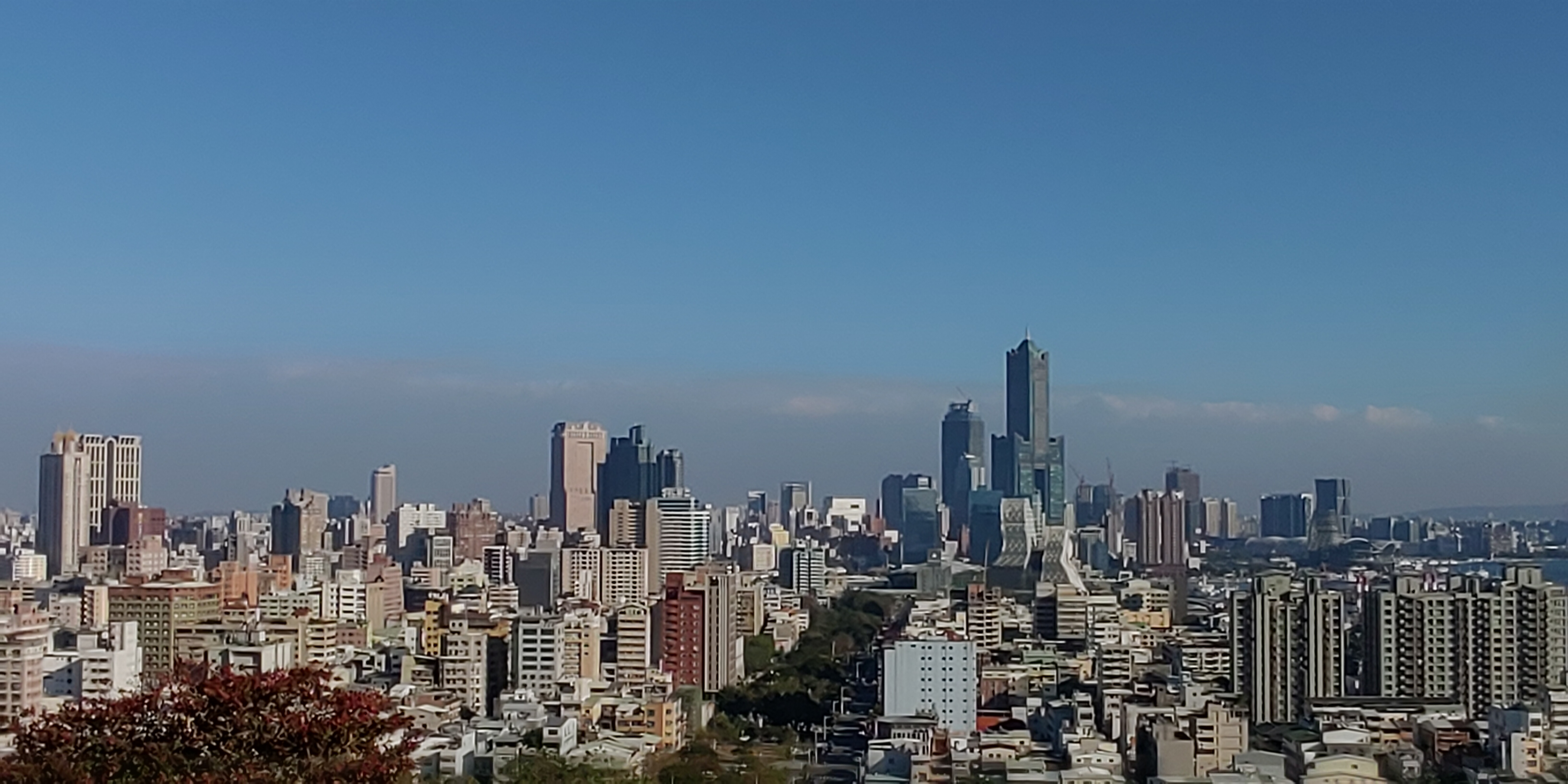 Skyline of Kaohsiung.